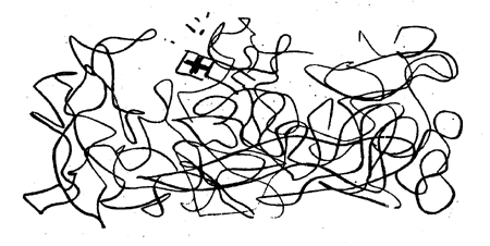 Battle of Grunwald by Wyspianski, a satire of File:Grunwald bitwa.jpg